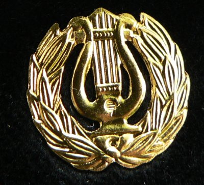 The lyre badge of the Finnish student's cap. Original the lyre is the logo of the Student Union of the University of Helsinki.